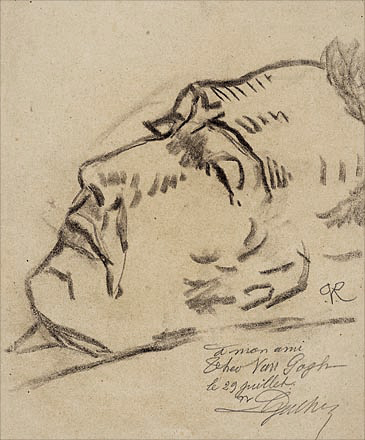 Vincent Van Gogh in his deathbed. Drawing by Paul Gachet, aka Paul van Ryssel (1828-1909)